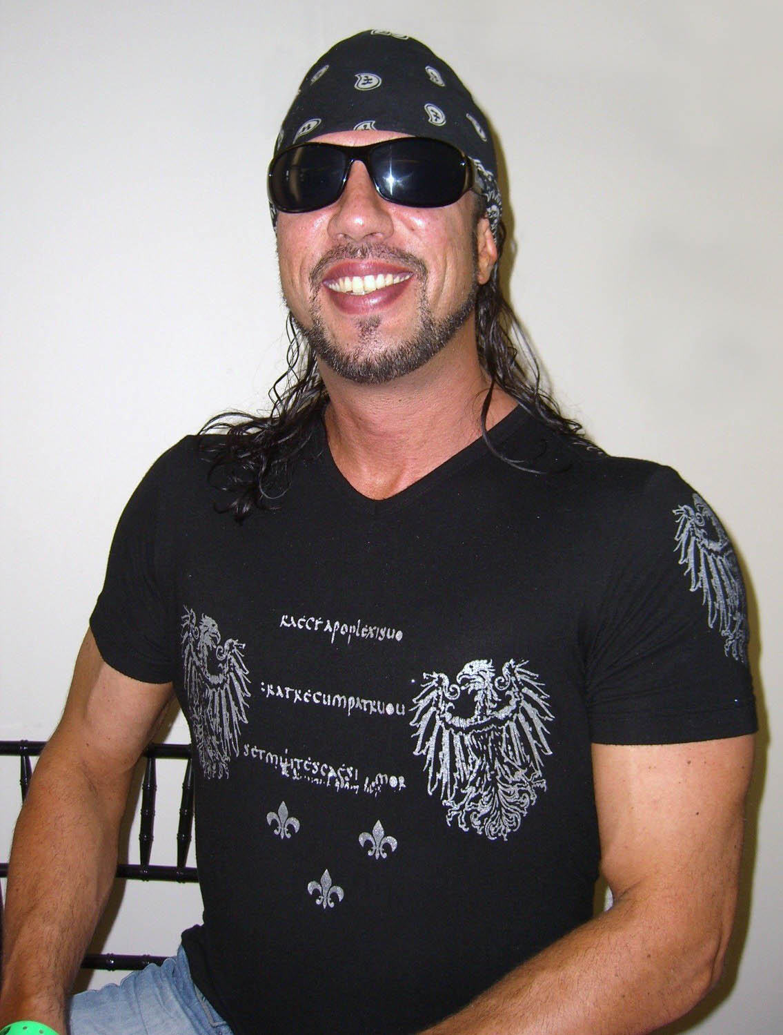 Professional wrestler Sean Waltman at the Big Apple Convention in Manhattan, October 2, 2010. Photo by Luigi Novi. This photo may be used, modified and published for any purpose, only if a easily visible credit to the photographer is placed near the photo in each instance in which it is used. (See licensing information below.) Publication of this photo without this proper attribution constitutes copyright infringement. For more information on my photos, you can contact me here.